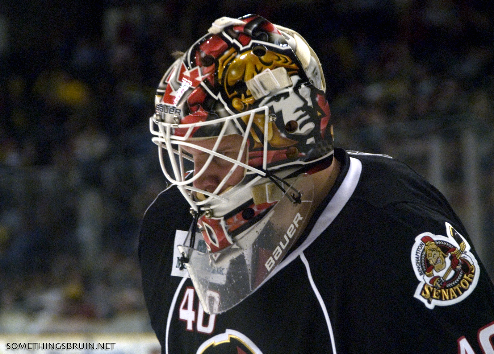 pbruinsbsens115 Photo taken on January 9, 2011 by Sarah Connors. This photo also appears in sarah_connors' Flickr photostream B-Sens @ Providence, 1/9/11 (Set: 174) Flickr Tags: bruins pbruins ahl nhl senators ottawa senators Binghamton senators Boston bruins providence bruins icehockey hockey